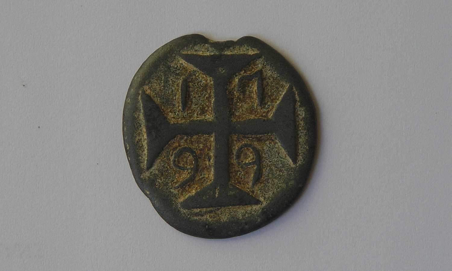 20 Bazarucos Portuguese Indian lead or tin coin. Dated 1799 and struck at Diu